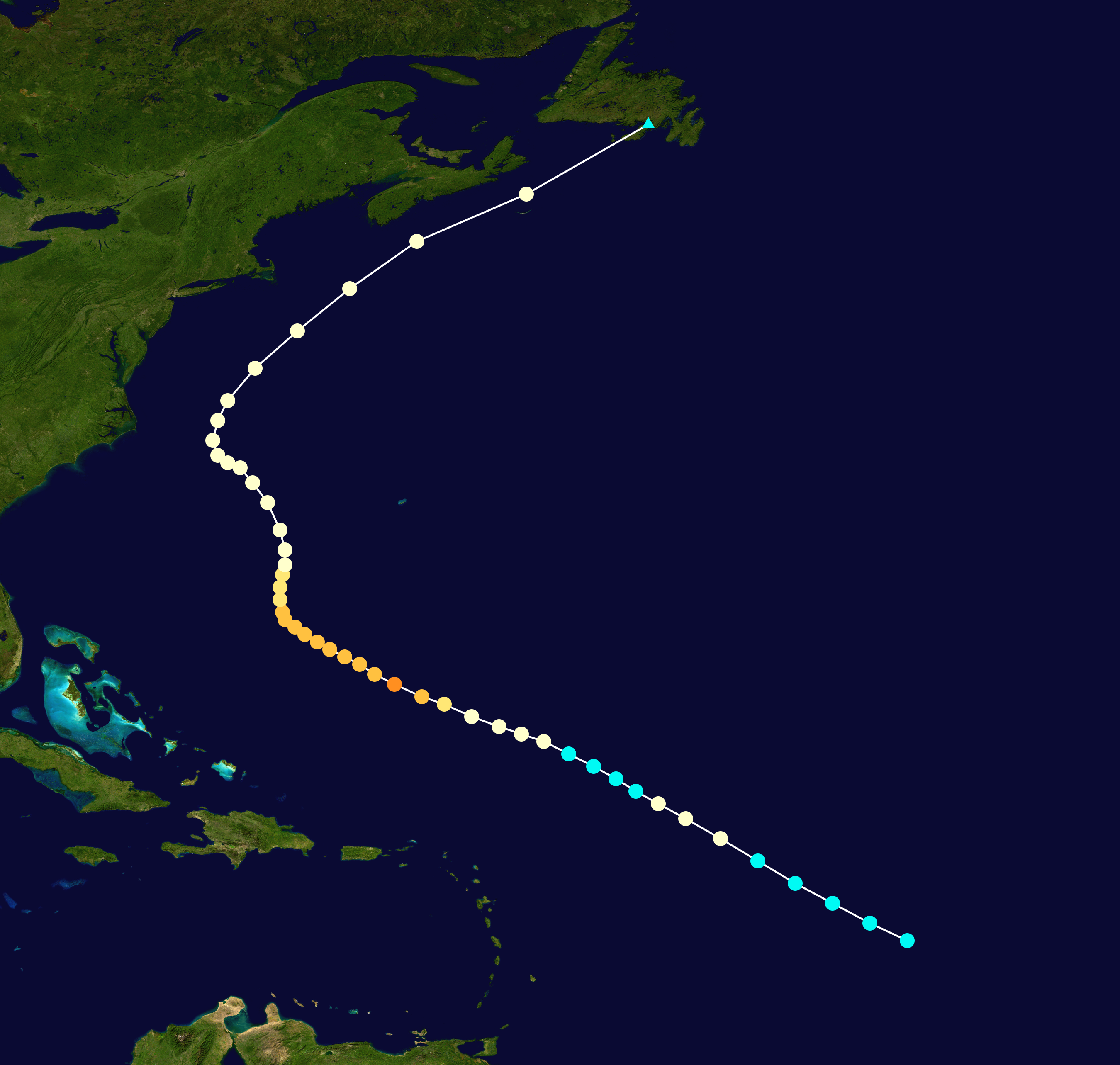 Track map of Hurricane Gladys of the 1964 Atlantic hurricane season. The points show the location of the storm at 6-hour intervals. The colour represents the storm's maximum sustained wind speeds as classified in the Saffir–Simpson scale (see below), and the shape of the data points represent the nature of the storm, according to the legend below. Saffir–Simpson scale Tropical depression≤38 mph≤62 km/h Category 3111–129 mph178–208 km/h Tropical storm39–73 mph63–118 km/h Category 4130–156 mph209–251 km/h Category 174–95 mph119–153 km/h Category 5≥157 mph≥252 km/h Category 296–110 mph154–177 km/h Unknown Storm type Tropical cyclone Subtropical cyclone Extratropical cyclone / Remnant low / Tropical disturbance / Monsoon depression